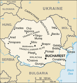 Map of Romania from the CIA Factbook 2004 version